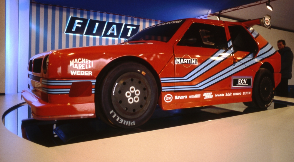 The Lancia ECV, here pictured in December 1986 during its first public presentation at the "Memorial Bettega" event of the Bologna Motorshow in Italy, was Lancia’s prototype for the proposed but cancelled Group S for the World Rally Championship (WRC) of the late 1980s.